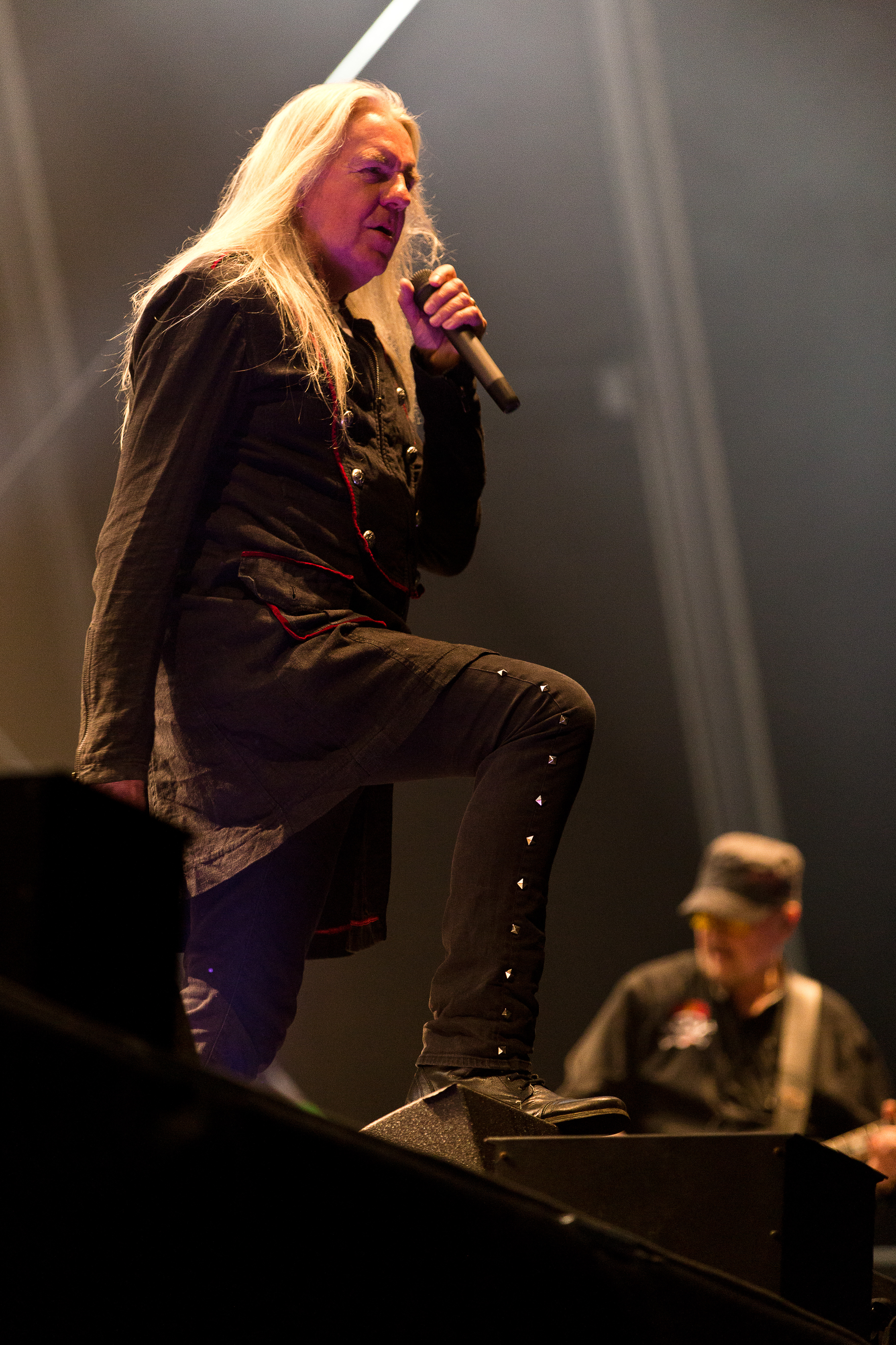 The English heavy metal band Saxon at the Rockharz Open Air 2016 in Ballenstedt/Germany.